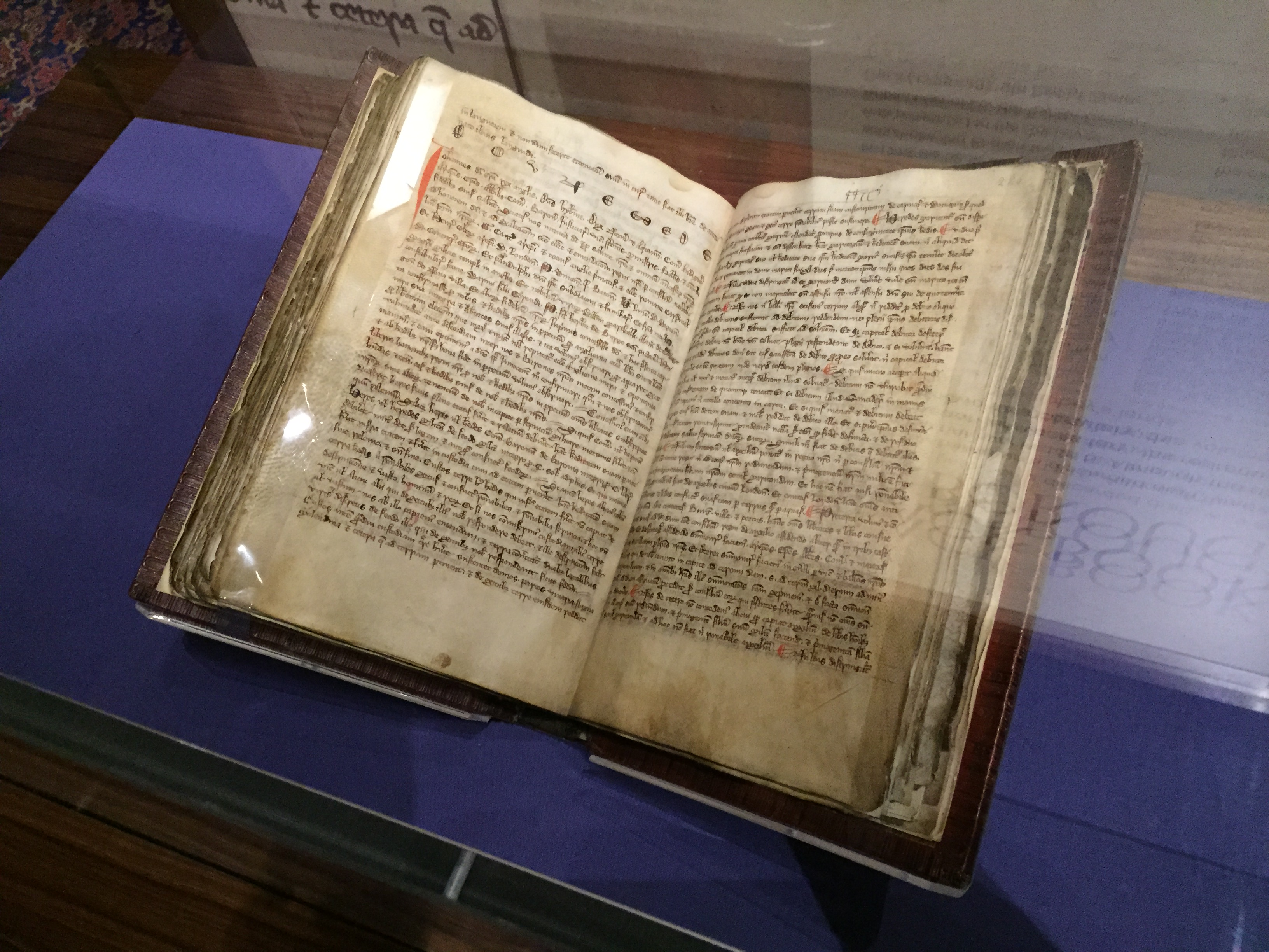 The Black Book of Peterborough (12th–14th century), a cartulary originally belonging to Peterborough Abbey, Peterborough, Cambridgeshire, England, open at the "charter of Runnymede" (Magna Carta). Following the Dissolution of the Monasteries in 1538, some of the Abbey's lands were granted by the King to William Cecil, 1st Baron Burghley (1520–1598), and at some point the book passed into the possession of the Cecil family, possibly because it contained documents relating to the Abbey's former estate. It was donated to the Society of Antiquaries of London by Brownlow Cecil, 9th Earl of Exeter (1725–1793), a Fellow of the Society from 1767. The manuscript was on display in an exhibition at the Society entitled Magna Carta through the Ages, commemorating the 800th anniversary of Magna Carta.